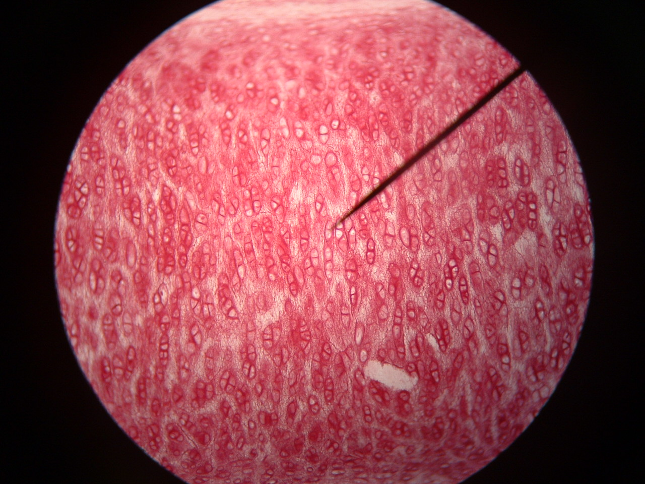 Elastic cartilage